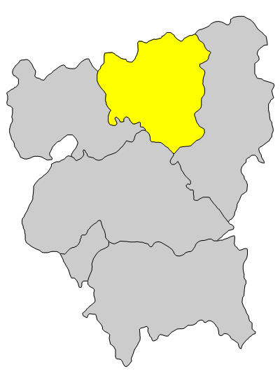 Location of Heping County, Heyuan